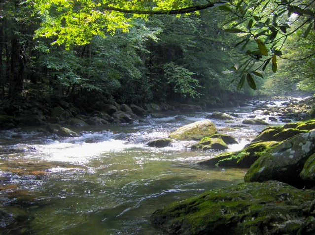 The West Fork (or West Prong) of the Little Pigeon River near the heart of the Sugarlands. This is in the area of the old Sims ford, and can be reached by following the "Quiet Walkway" opposite the Huskey Gap Trailhead on US-441.